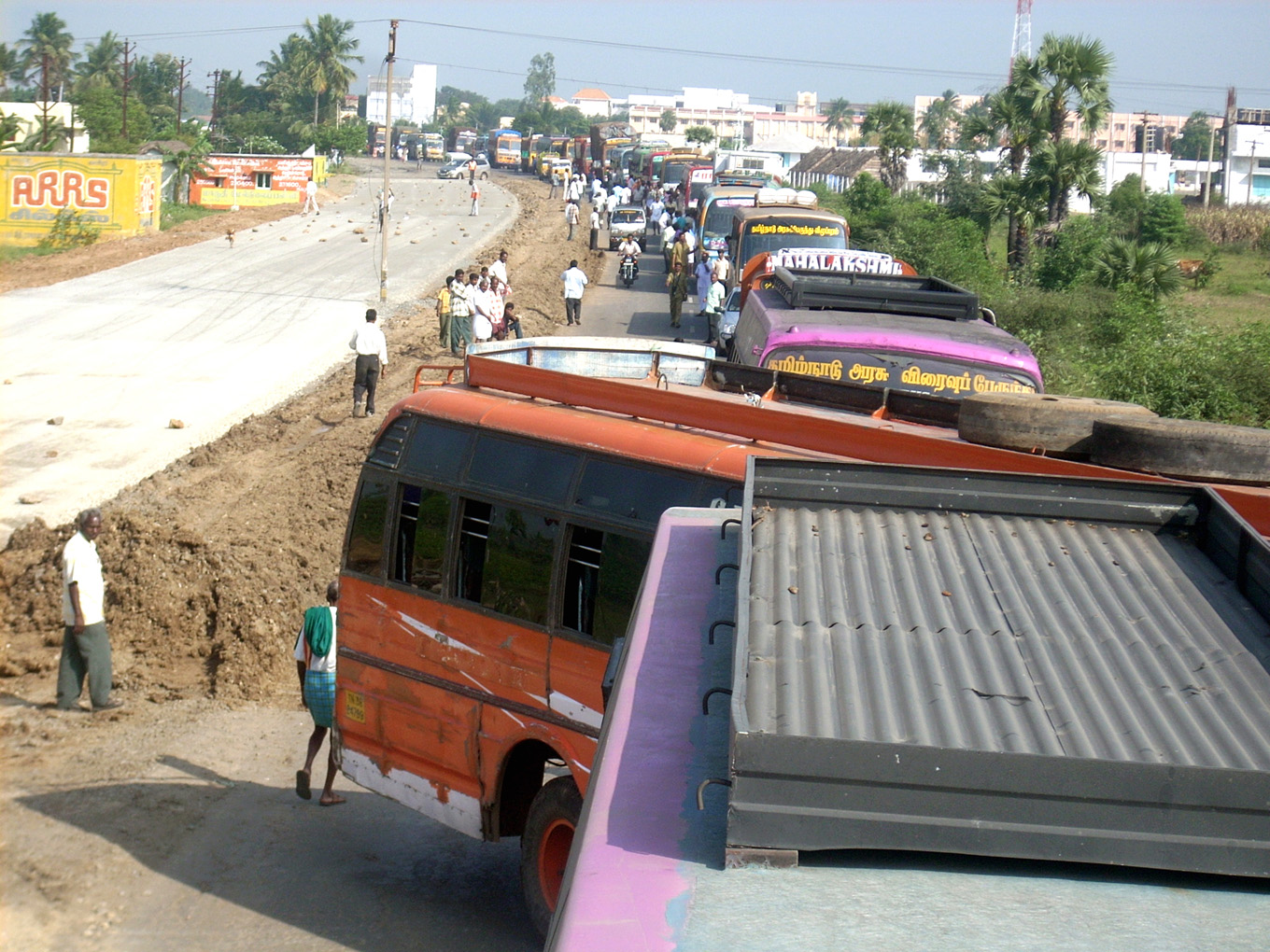 traffic jam in the state of Tamilnadu, India.